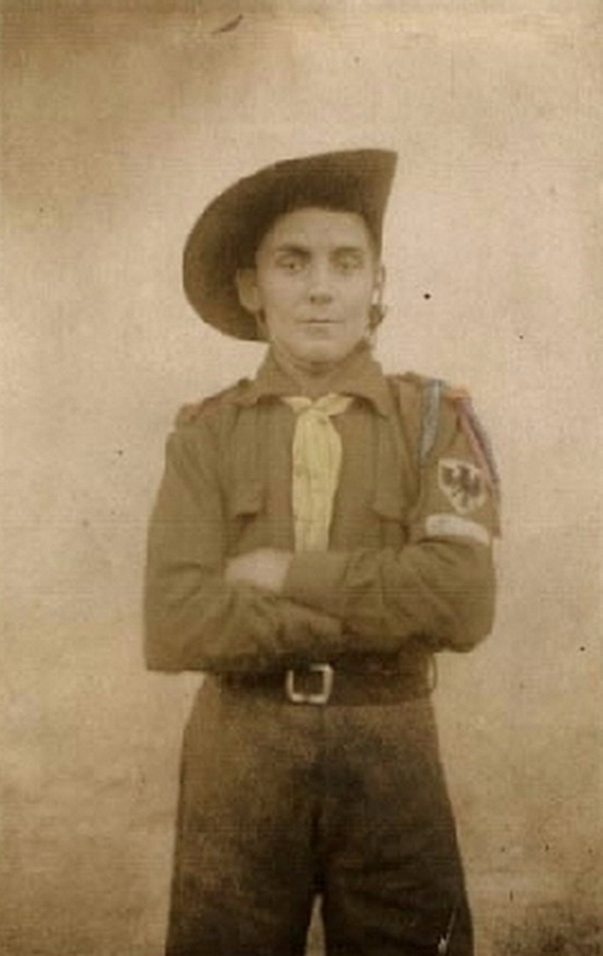 Sub-Scoutmaster Edmund Wilkosz.